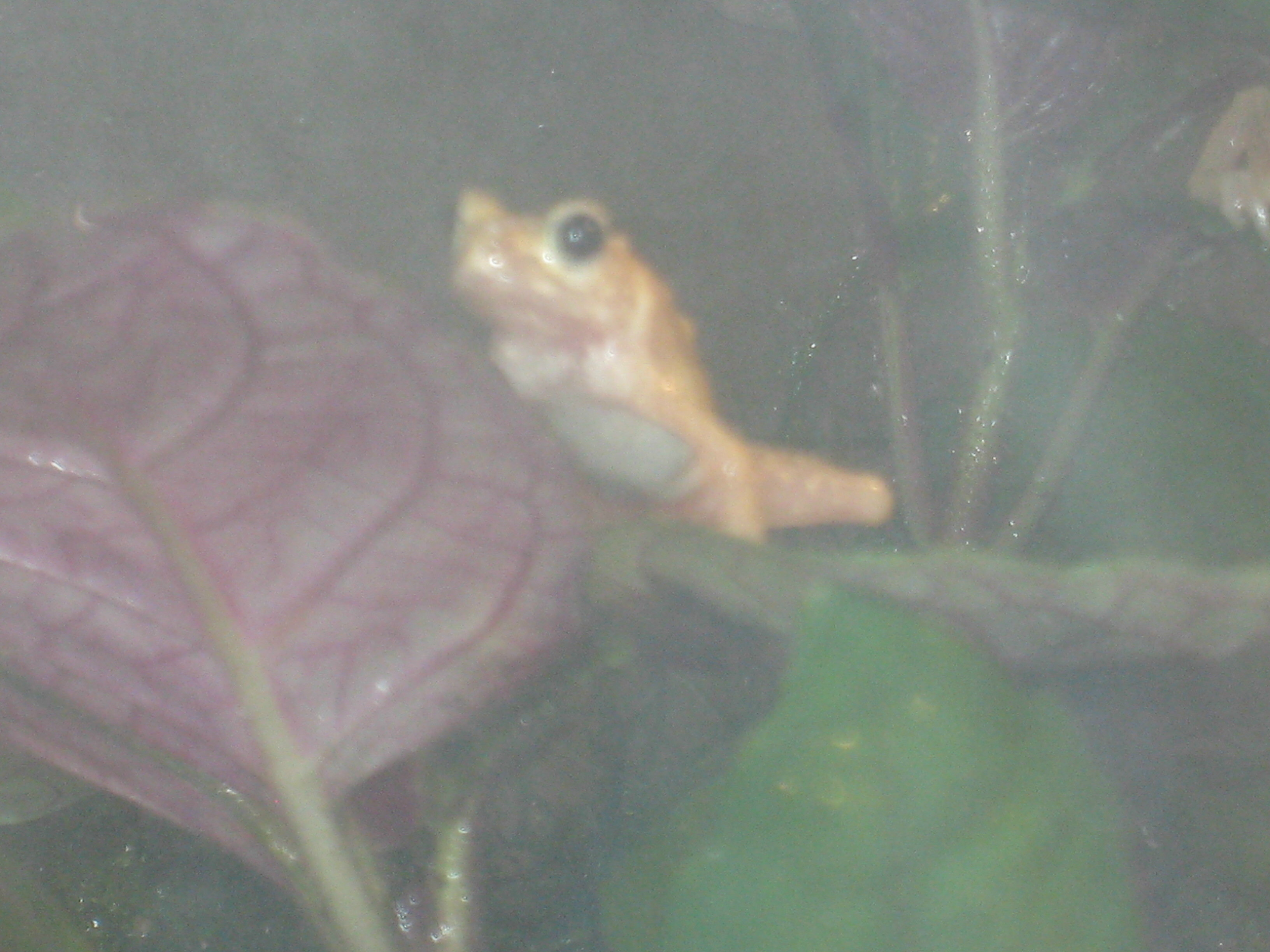 Photo of the Critically Endangered Kihansi Spray Toad (Nectophrynoides asperginis), taken at the Toledo Zoo.